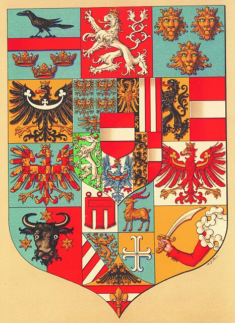 Shield of the Austrian Countries, designed in 1915 for the Middle Coat of Arms of the Austrian Countries and the Middle Common Coat of Arms of Austria-Hungary.